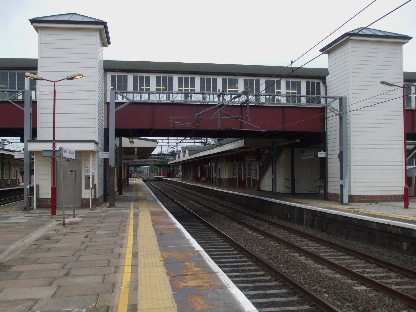 Harrow & Wealdstone station fast platforms 3 and 4 (London Midland/Virgin Trains) looking south